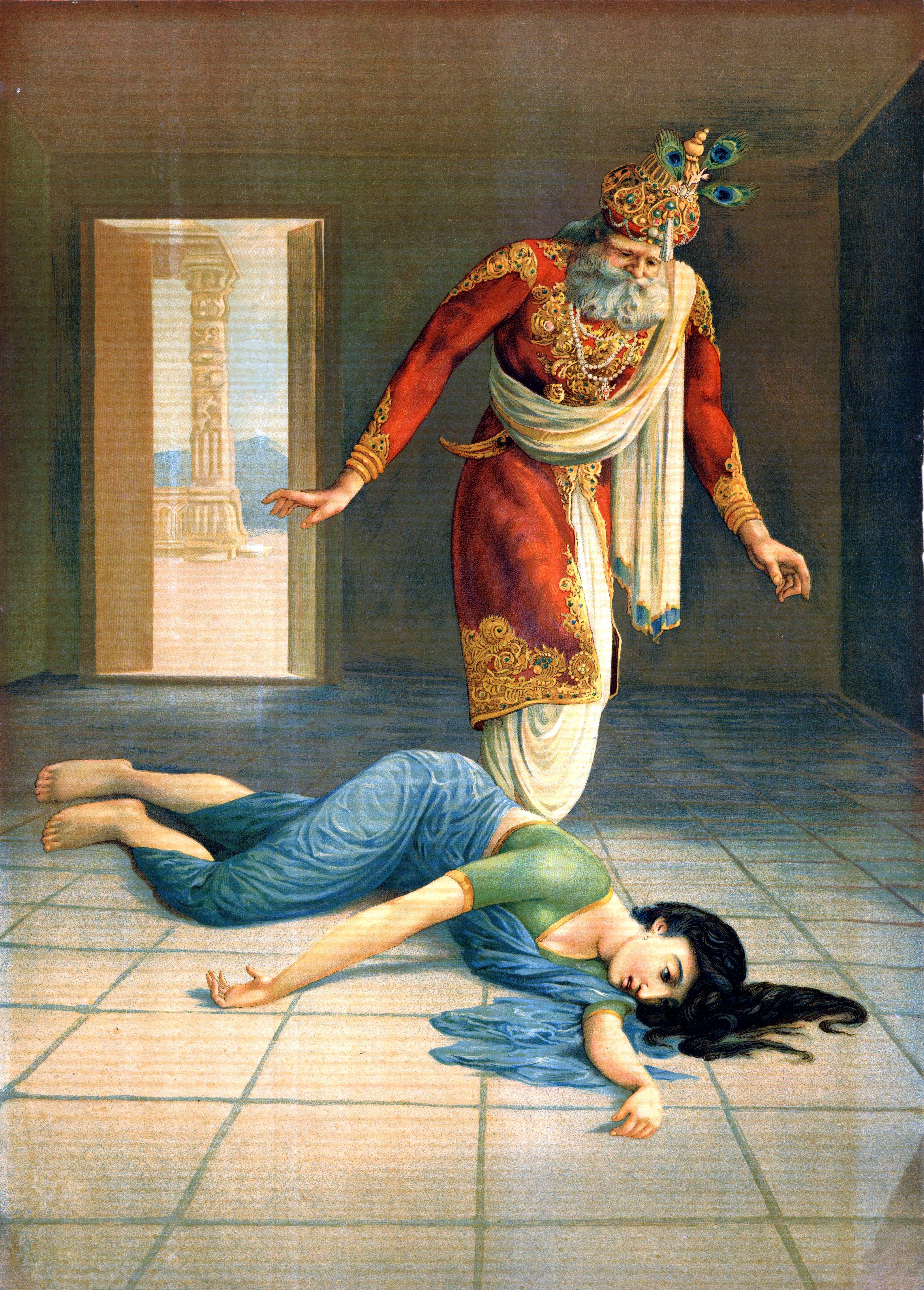 "King Dasaratha finds Queen Kaikeyi collapsed on a tile floor. This represents a scene from the Ramayana where Kaikeyi demands that Dasaratha vanquish Rama from Ayodhya, and is a print from a Raja Ravi Varma oil painting."